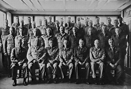 Senior officers of the Australian Army who attended the conference on "Certain Aspects of Prevention of Diseases in Tropical Warfare" under the chairmanship of Lieutenant General V. A. H. Sturdee, General Officer Commanding First Australian Army. left to right: back row and third row: unknown; unknown; unknown, unknown; unknown; unknown; unknown; unknown; Brigadier F. E. Wells, commander 1st Armoured Brigade. middle row: Brigadier M. J. Moten, commander 17th infantry Brigade; unknown; Brigadier J. Field, administration commander 3rd Division; Brigadier E. L. Sheehan, Brigadier, General Staff, headquarters First Australian army; unknown; Brigadier L. G. H. Dyke, commander, Corps Royal Artillery I Corps; Brigadier K. W. Eather, commander 25th Infantry Brigade; unknown; Brigadier N. H. Fairley. front row: Major General J. E. S. Stevens, commander 6th Division; Major General G. F. Wootten, commander 9th Division; Lieutenant General F. H. Berryman, DCGS Land Headquarters; Lieutenant General V. A. H. Sturdee, commander First Army; Lieutenant General C. E. M. Lloyd, Adjutant General Land headquarters; Major General S. R. Burston, Director General of Medical Services, Land Headquarters; Major General G. A. Vasey, commander 7th Division.